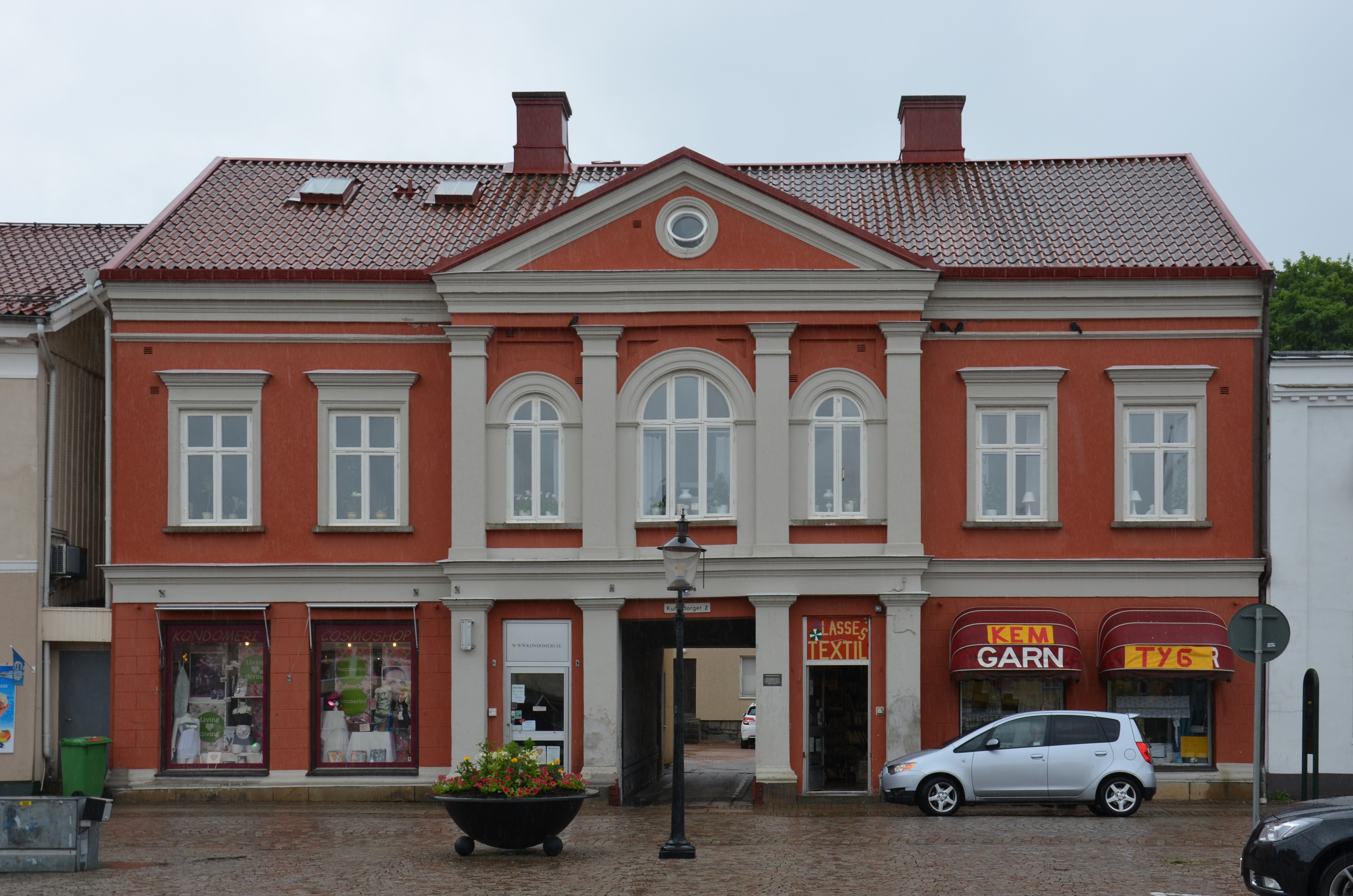 Thorburnska huset vid Kungstorget i Uddevall, erected 1854. Architect: A.W. Edelsvärd